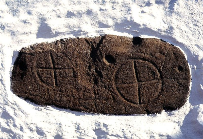 Asnæs church in Odsherred Kommune, Denmark